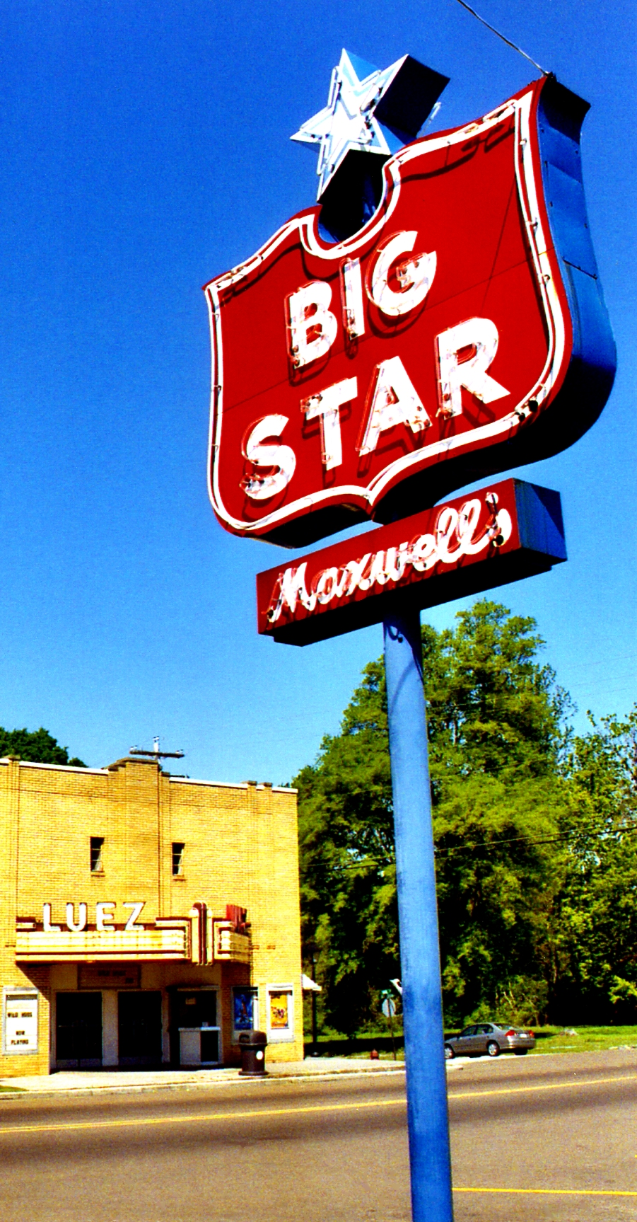 Maxwell's Big Star in Bolivar, Tennessee